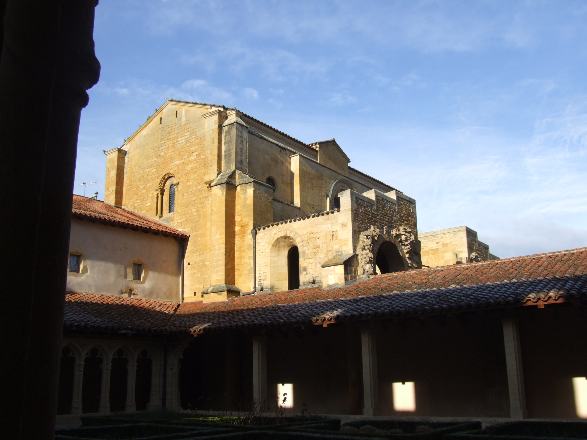 This picture shows Saint-Fortunat abbey.